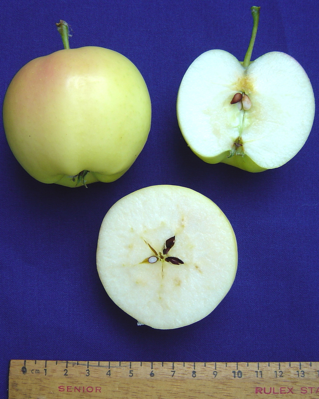 Malus 'Pristine', fruit